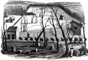 Sketch of Nashoba